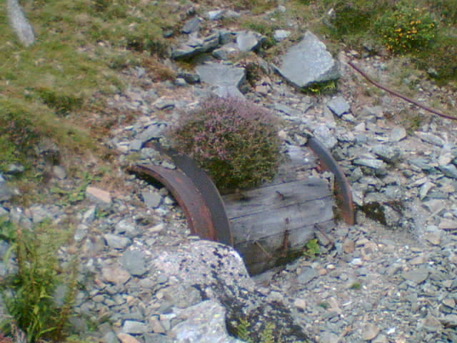 Remains of the winding drum at the head of the incline between Cowlyd Dam and the Quarry. Photo by me, & released to the Public Domain.